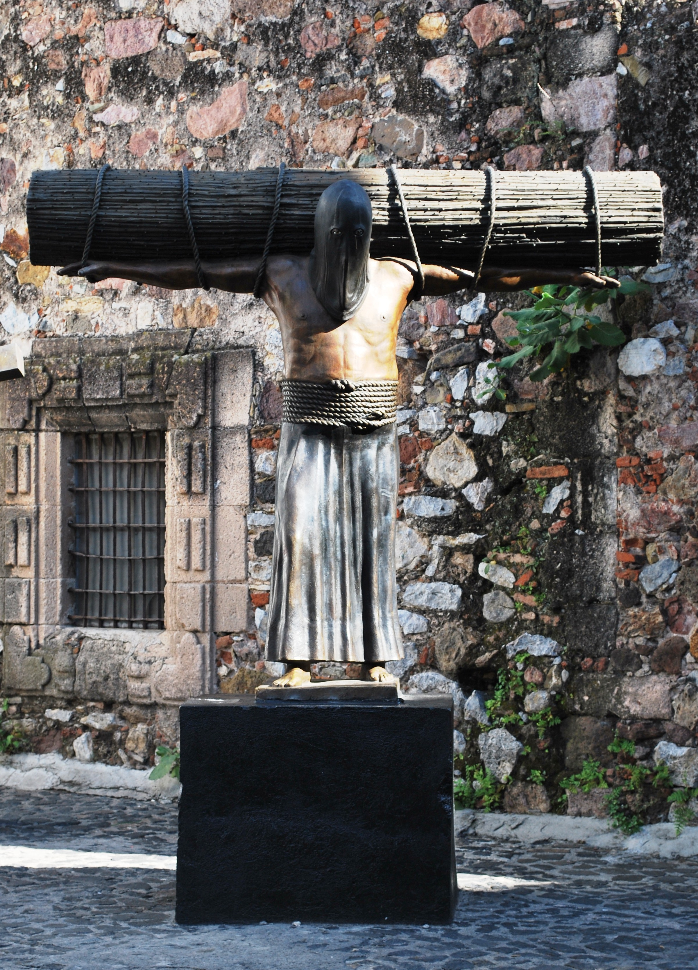 One of the sculptures by Carlos Millán Gómez behind the Church of the ex monastery of San Bernadino in Taxco de Alarcón, Guerrero, Mexico